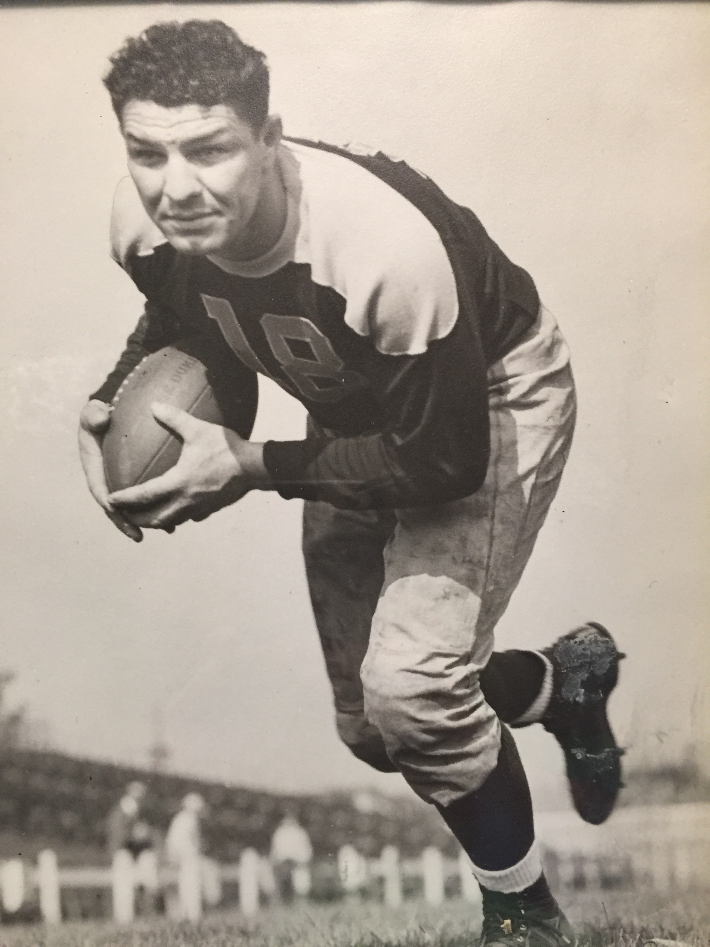 A snapped photo of an actual old photo signed by Tony Falkenstein, owned by his son Jerry